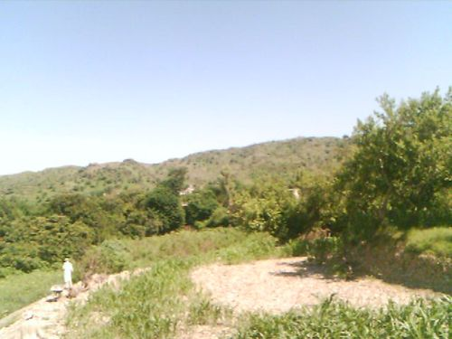 Haripur road to talakar village, photo by me